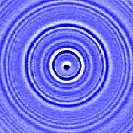 Image of the dispersion of Rayleigh waves excited by a point source on a thin Au film of thickness 70 nm on a crown glass substrate. The image size is 170 microns square. Image created by the Applied Solid State Physics Laboratory, Division of Applied Physics, Graduate School of Engineering, Hokkaido University, Sapporo, Japan. Dec. 18, 2008 [1]